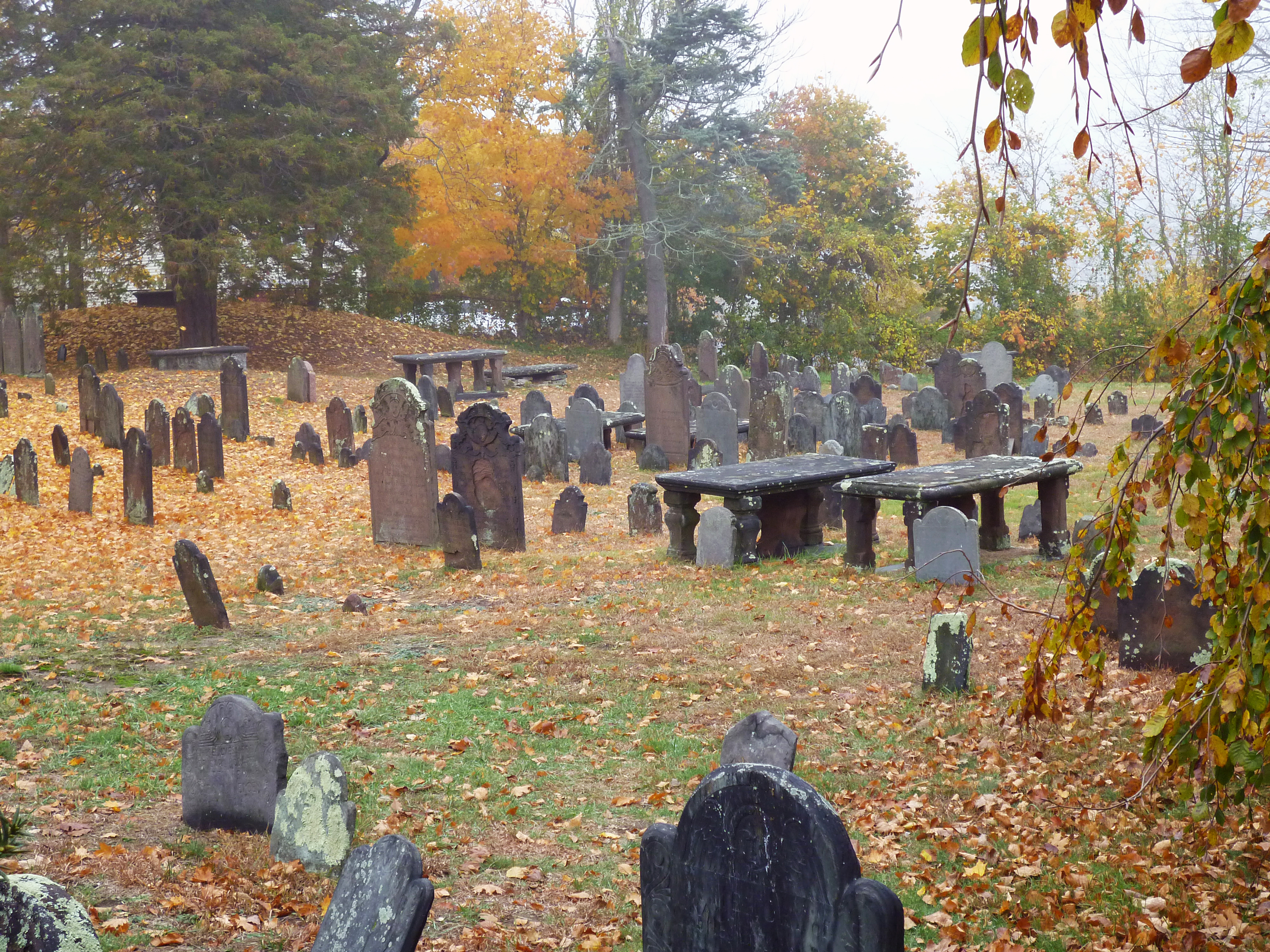 Whaling town's cemetery dating back to early 1700s.